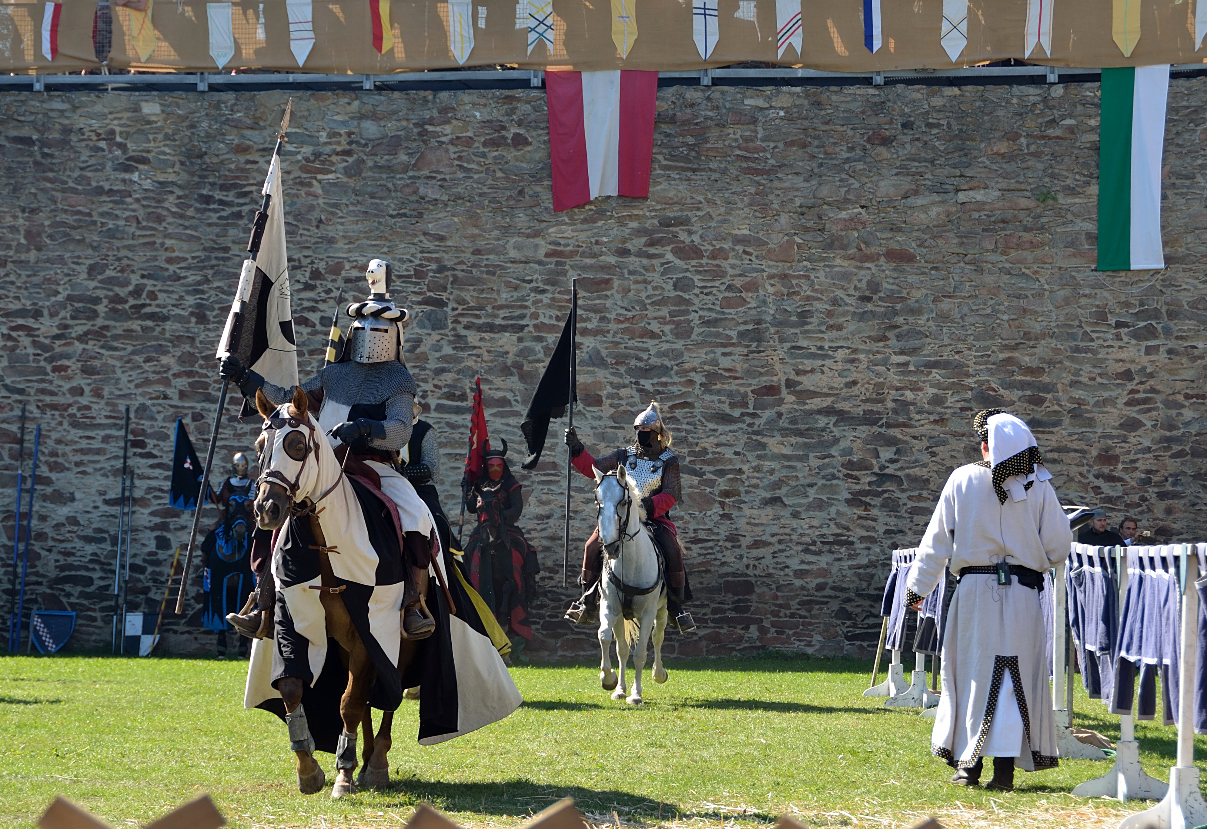 Medivial festival at Eggenburg, Lower Austria, 2013, September 7th-8th. Tournament at the Kanzlerwiese.